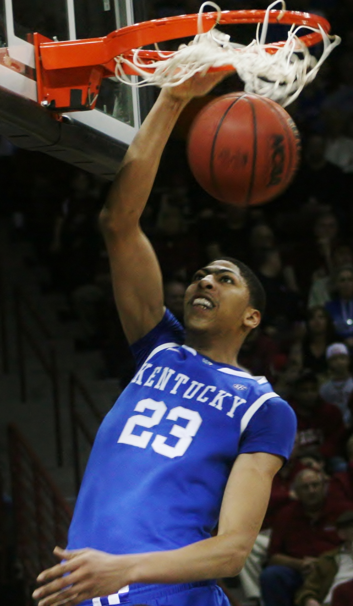 Anthony Davis of the Kentucky Wildcats dunks in a February 4, 2012 game against the South Carolina Gamecocks at the Colonial Life Arena in Columbia, South Carolina.